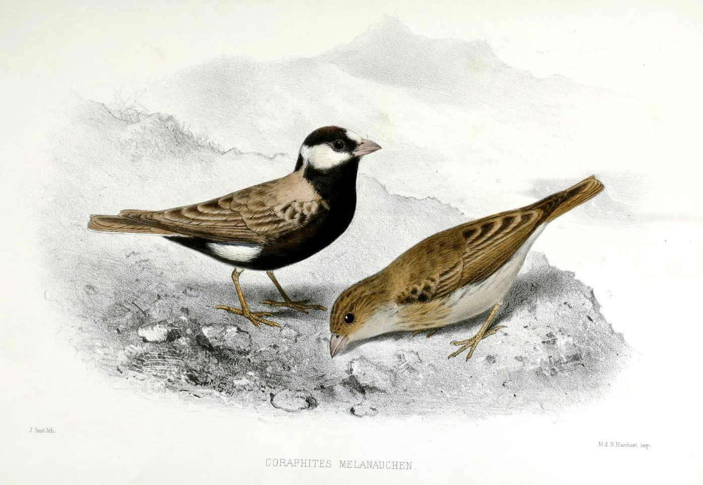 Coraphites melanauchen = Eremopterix nigriceps